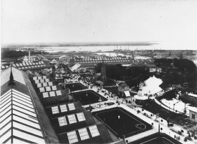 View of the Nordic Exhibition of 1888 from the dome of the central hall